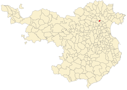 Vilabertrán (Dalí)